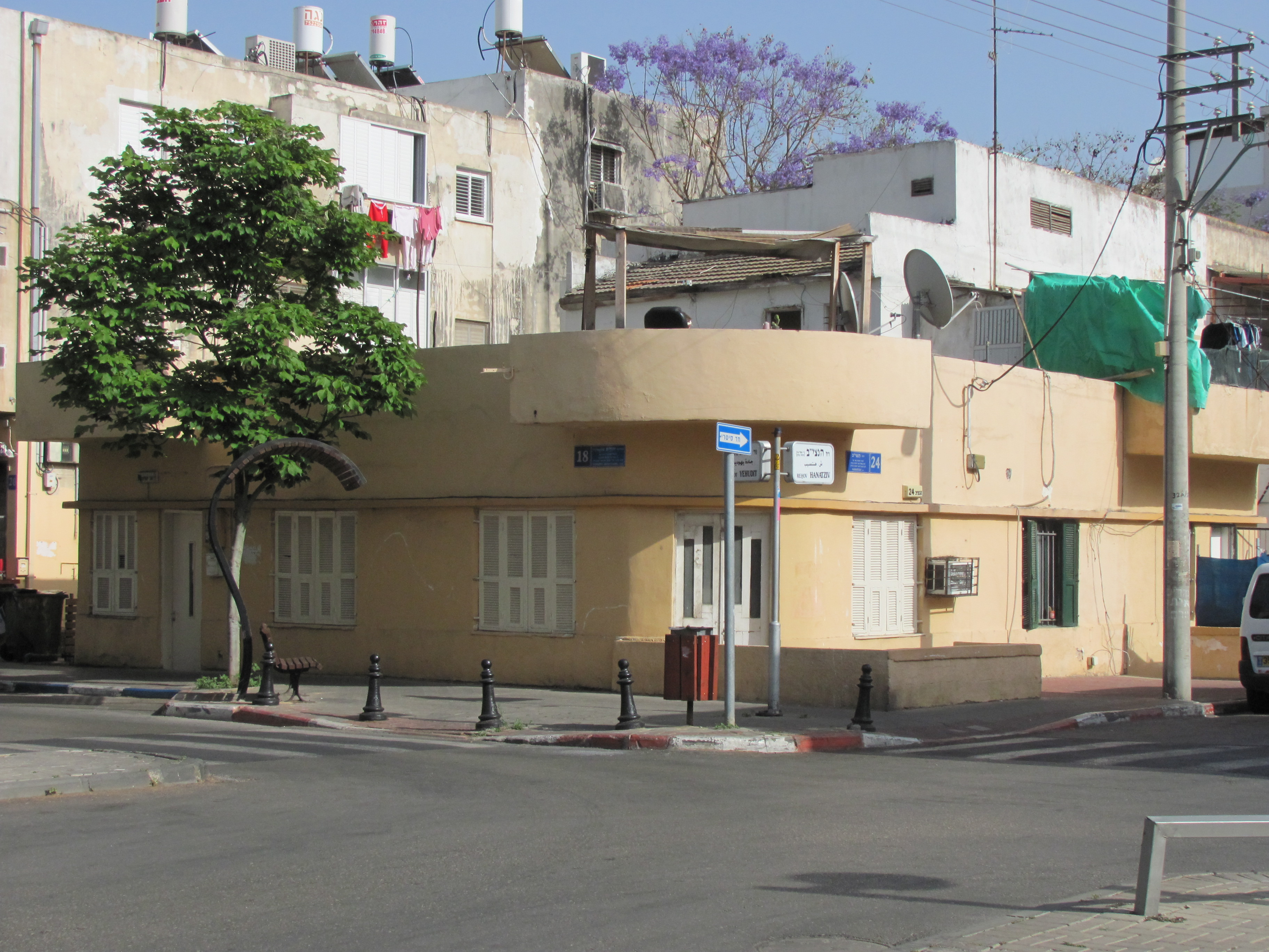 An old residential house in Montefiore neighbourhood, Tel Aviv.